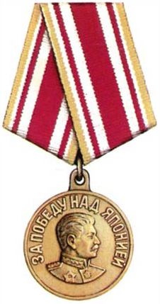 Soviet Medal For the Victory Over Japan